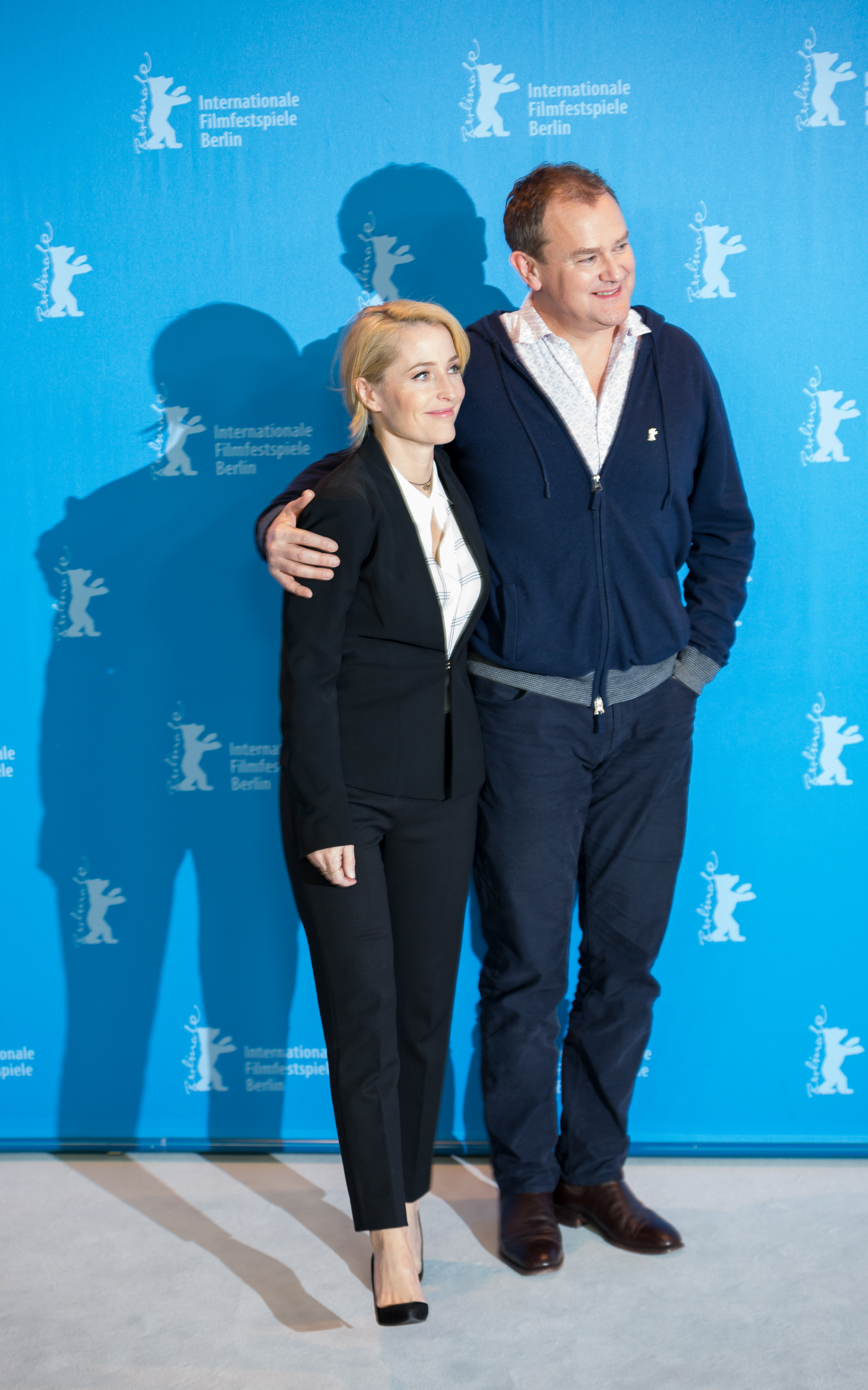 Gillian Anderson and Hugh Bonneville presenting the movie Viceroy's House at the Berlinale 2017